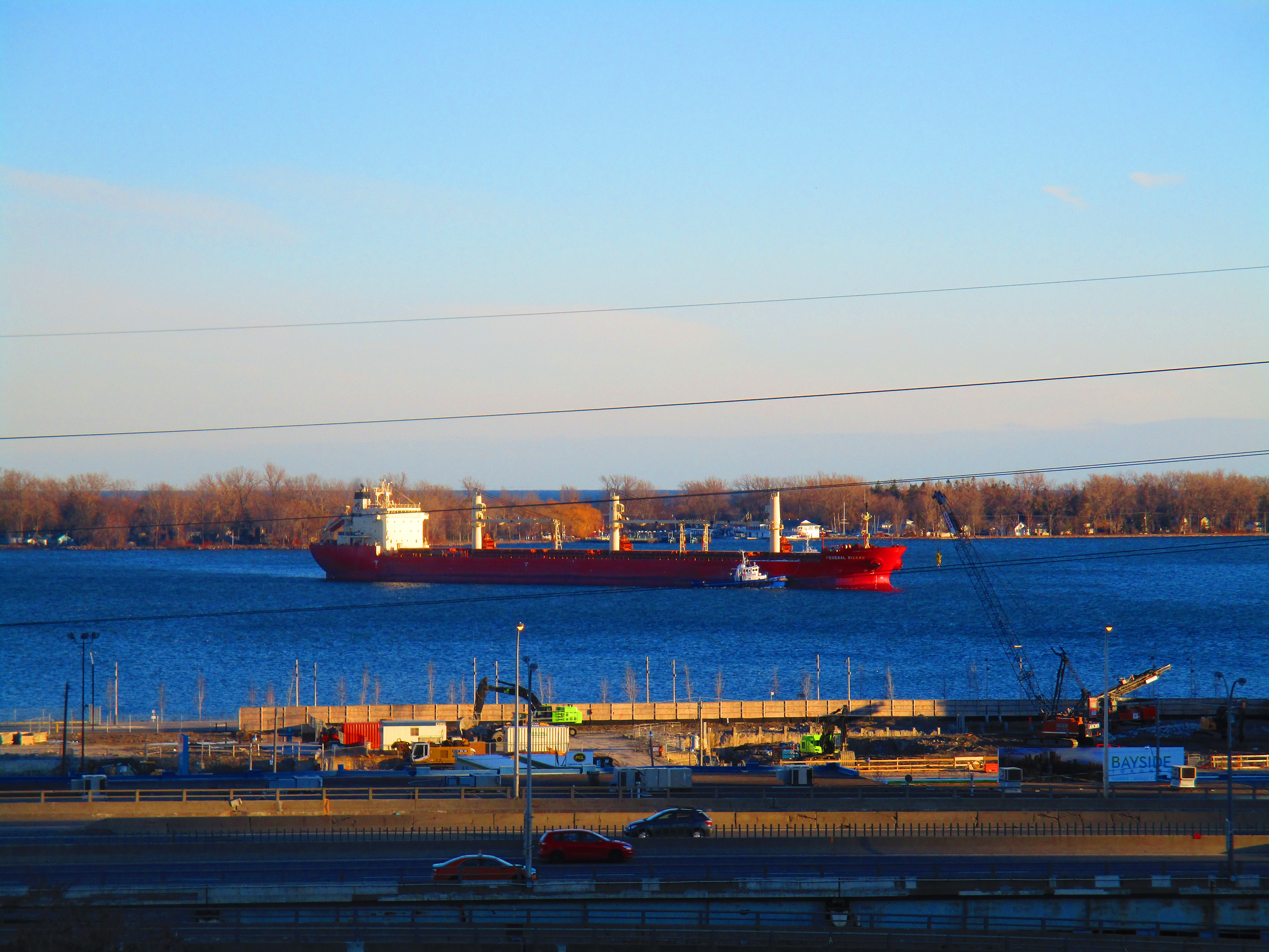 Freighter approaches Redpath, near dusk, 2016 04 09 (8)